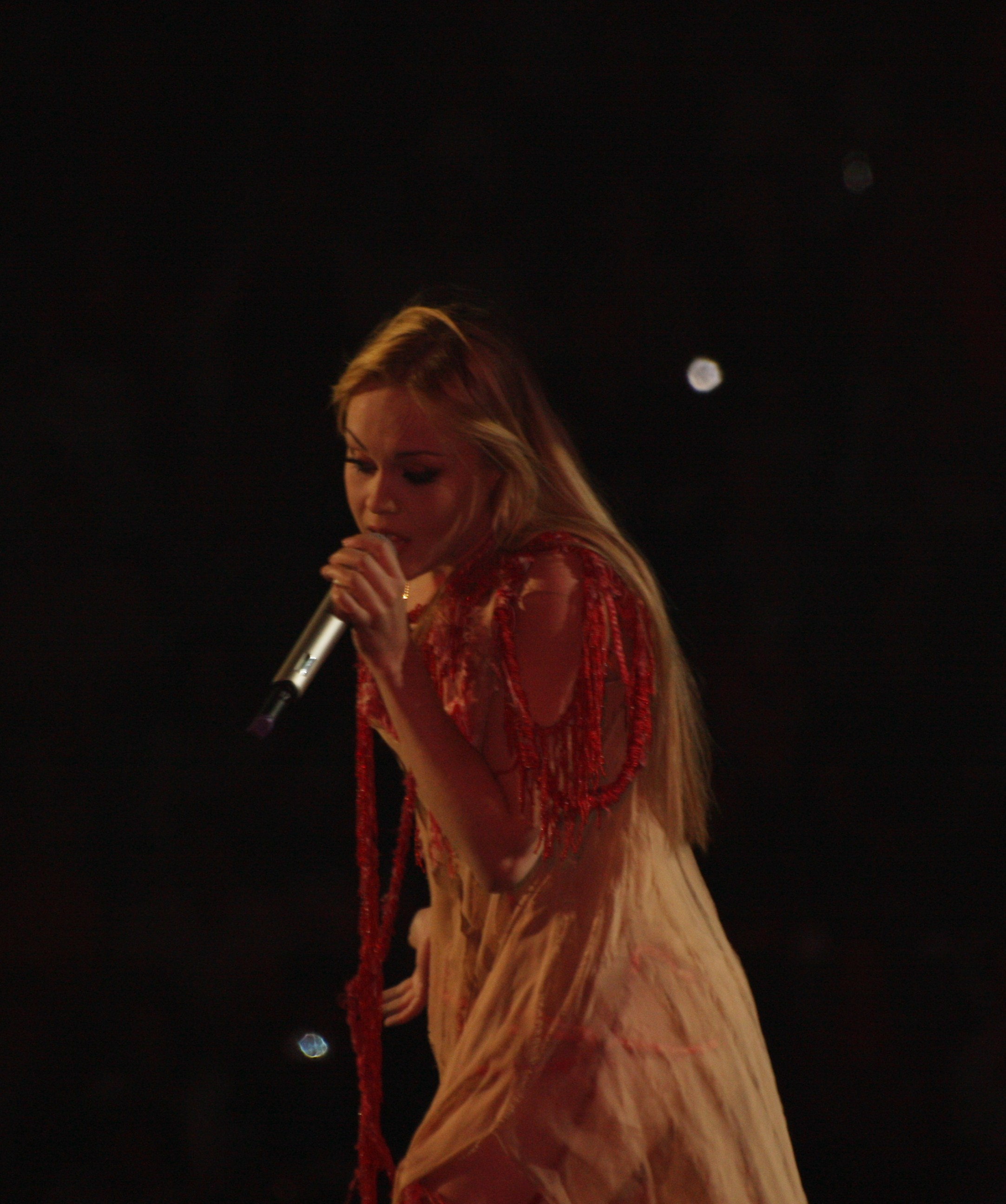 Alyosha, artist of Ukraine in Eurovision Song Contest 2010, rehearsal, Telenor Arena. Norway.